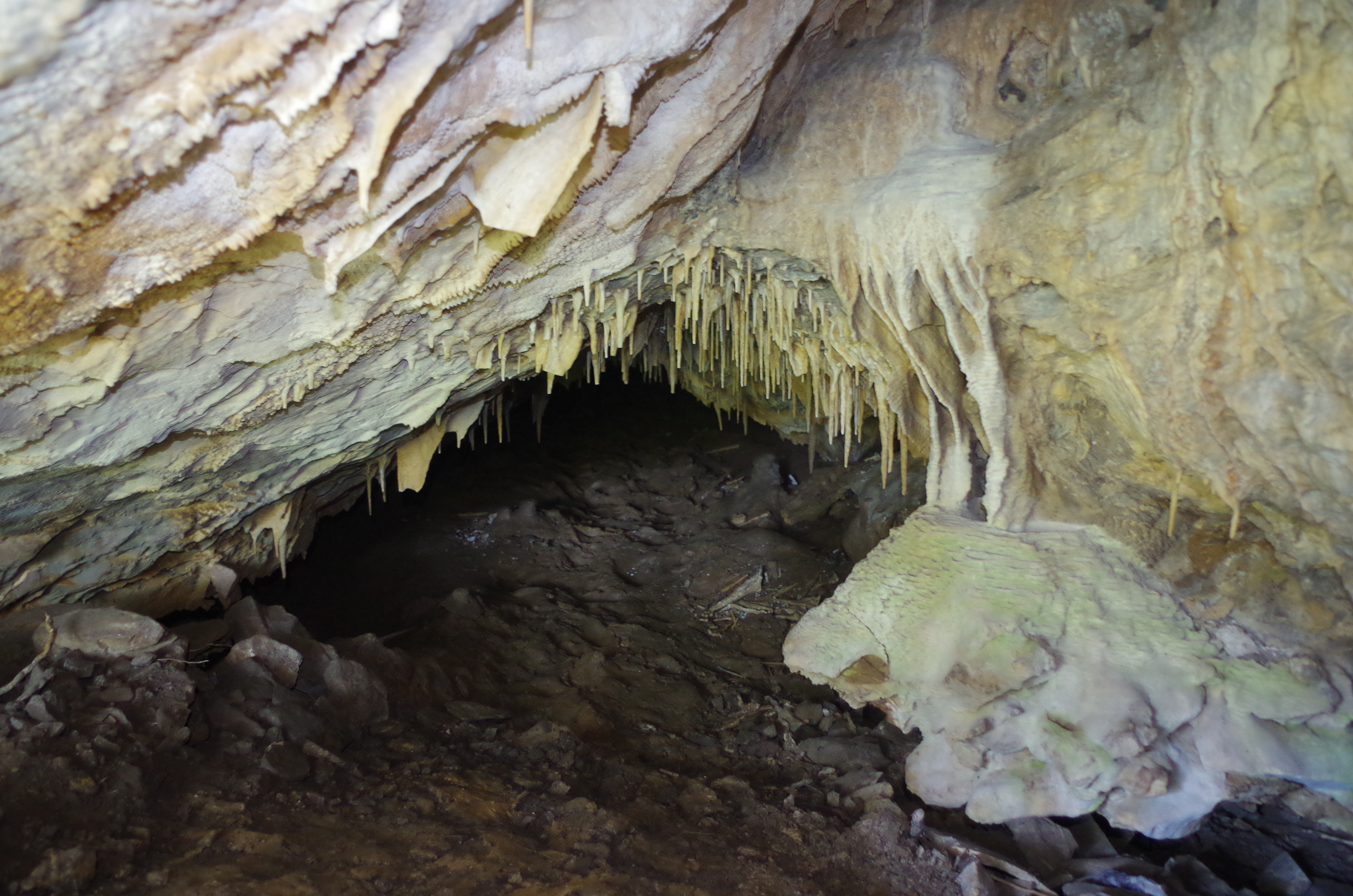 Slatinski Izvor (Slatina Spring) the longest cave in Macedonia